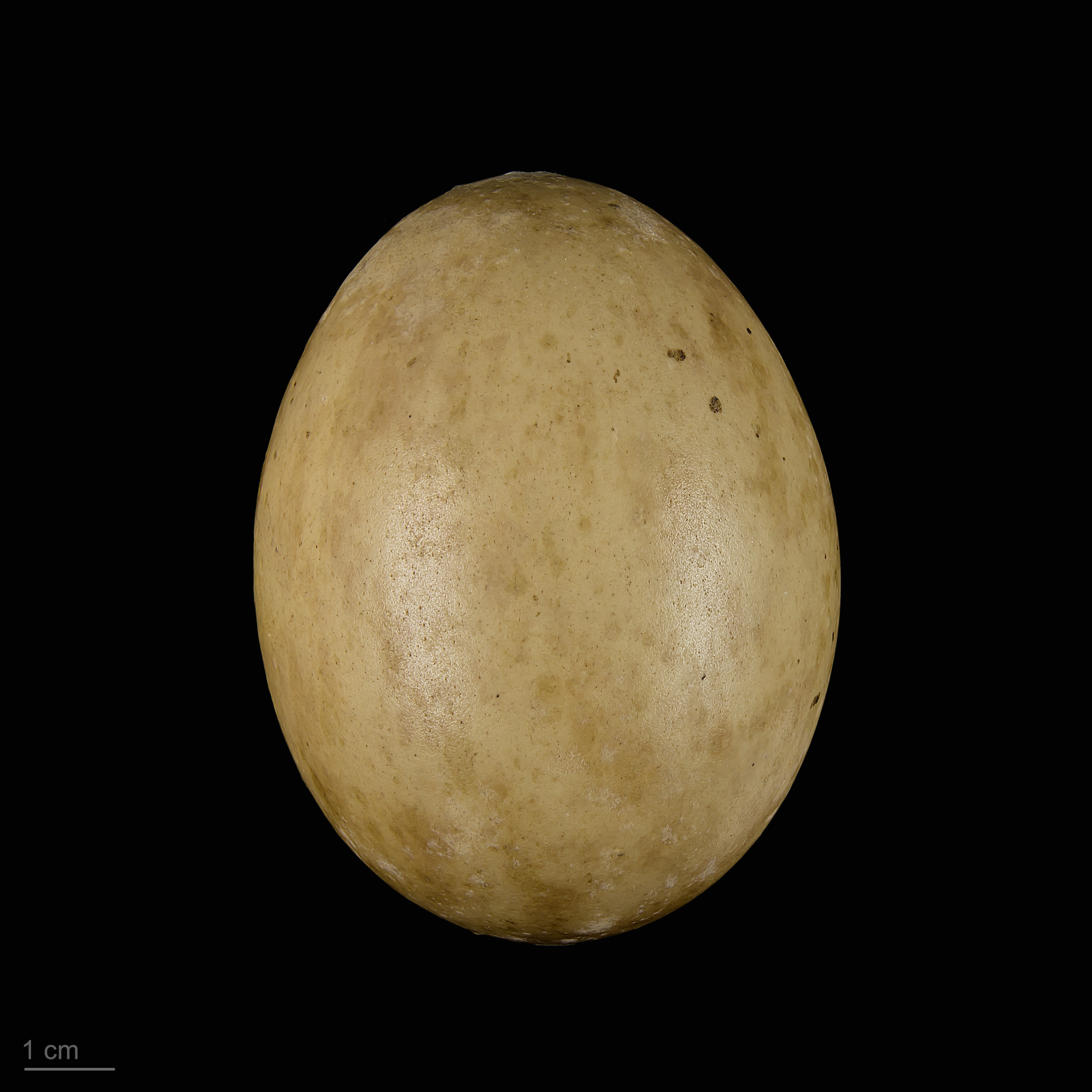 Eggs of Moroccan bustard collection of Jacques Perrin de Brichambaut.